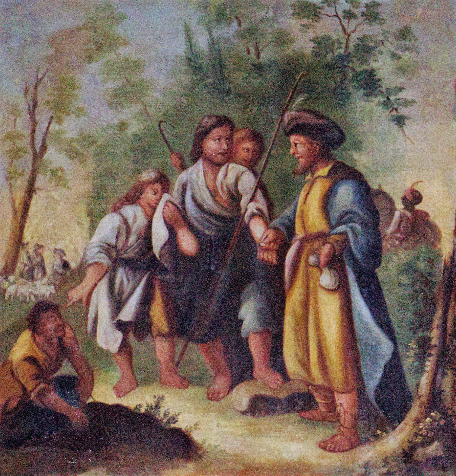 Protestant church "St. Gangolf" (Oil Paintings) in Bobenhausen II, Ulrichstein, Hesse, Germany